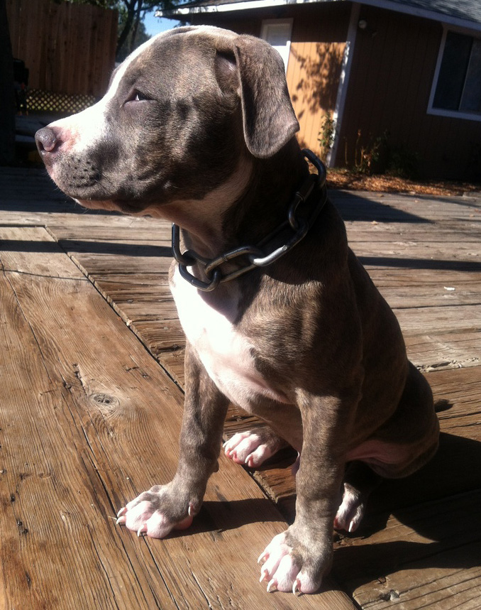 3 month old blue nose breed of pit bull puppy. Shows colors and markings of the puppy at a young age.